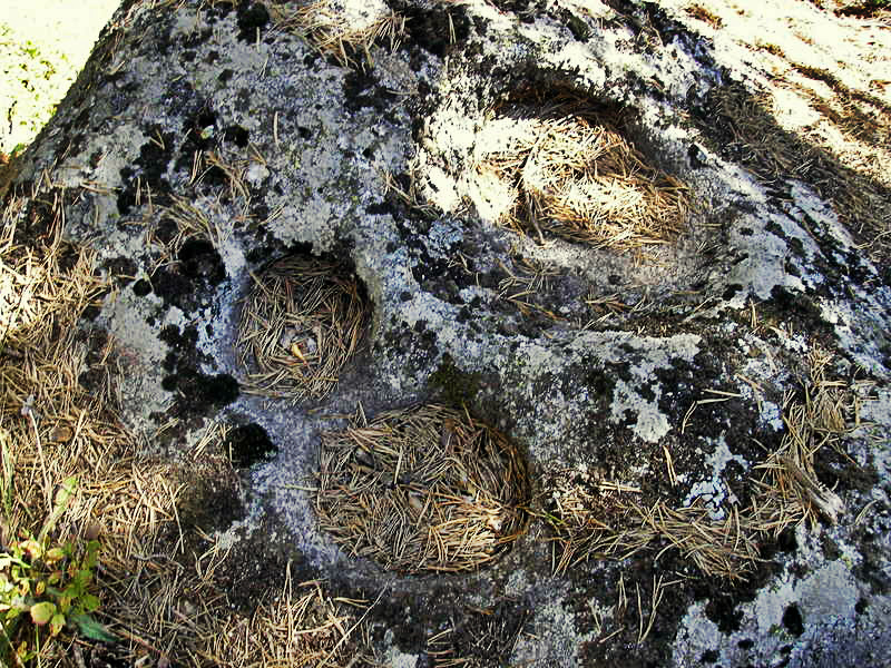 Carev peak Rila